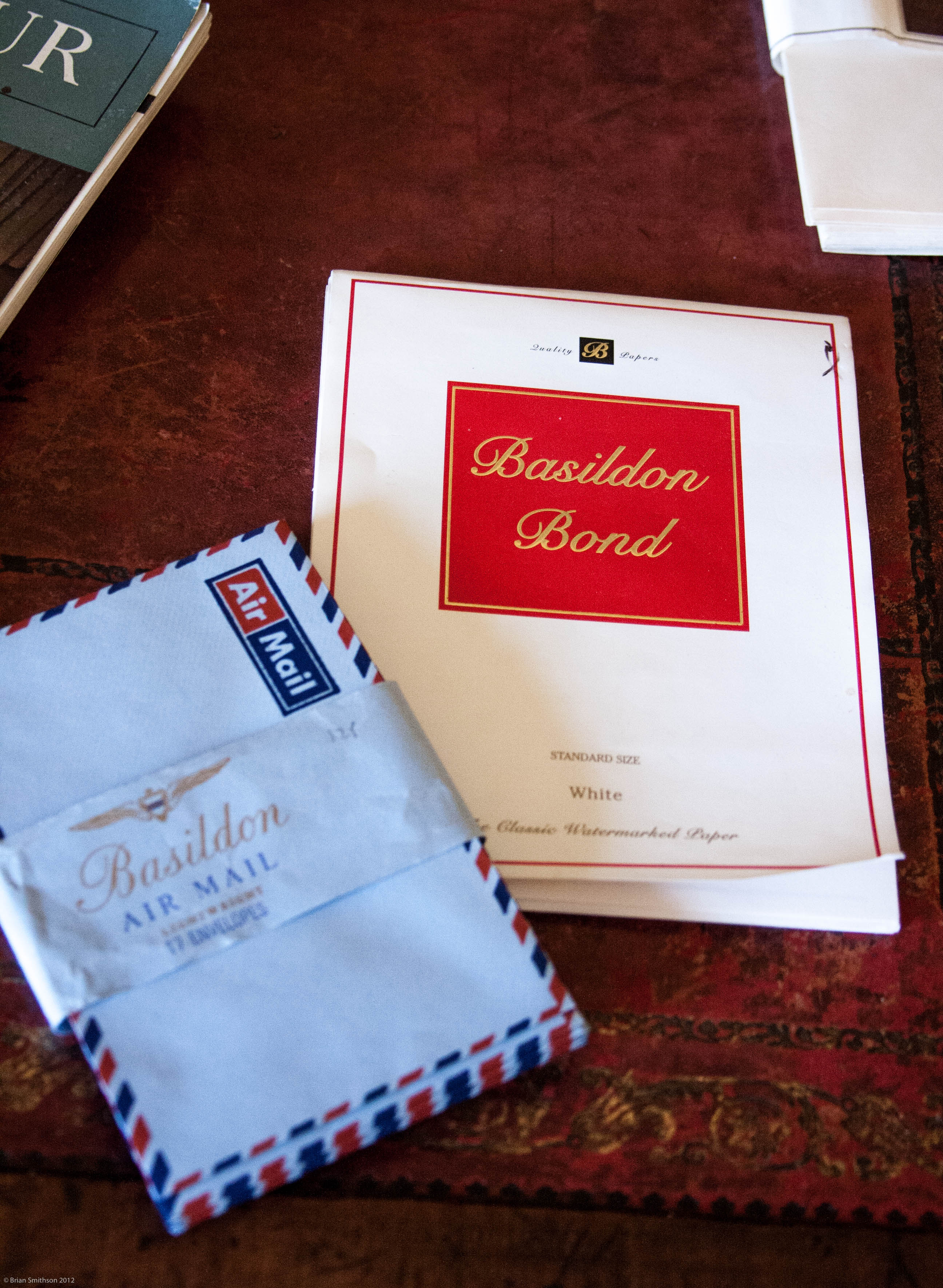 Basildon Bond stationery on a desk. In the reconstructed 1950s office at Basildon Park, a reminder of a less-fraught world, where things ran a little slower. Who remembers Russell Abbott and his pastiche of James Bond?